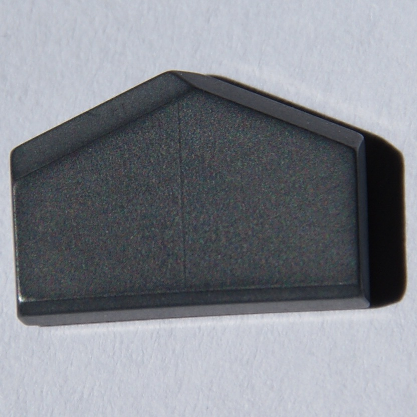 Tungsten carbide tool, 1 x 1.5 cm, 4 grams.